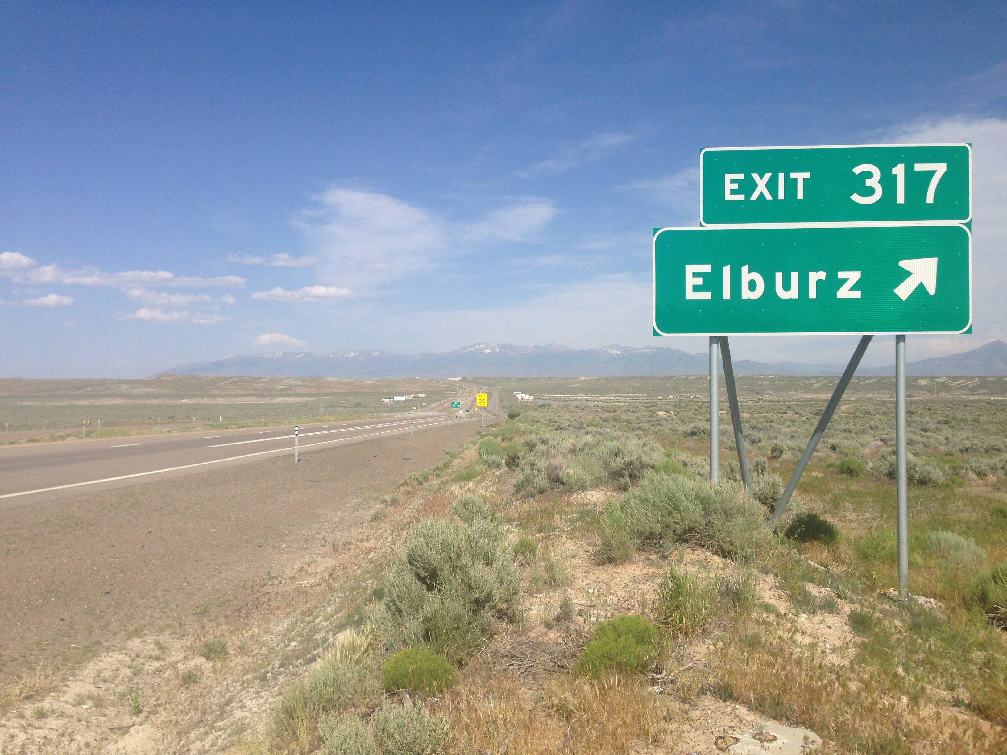 Sign for Exit 317 along eastbound Interstate 80 in Elburz, Nevada